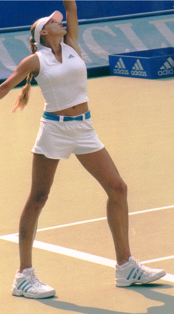 Crop, perspective adjustment, color enhancement of Image:Kournikova-SYD-2.jpg. (Anna Kournikova during the semi-finals of a double match in Sydney WTA tournament in 2002. Martina Hingis and Kournikova won 6-4 6-3 against Justine Henin and Meghann Shaughnessy.)